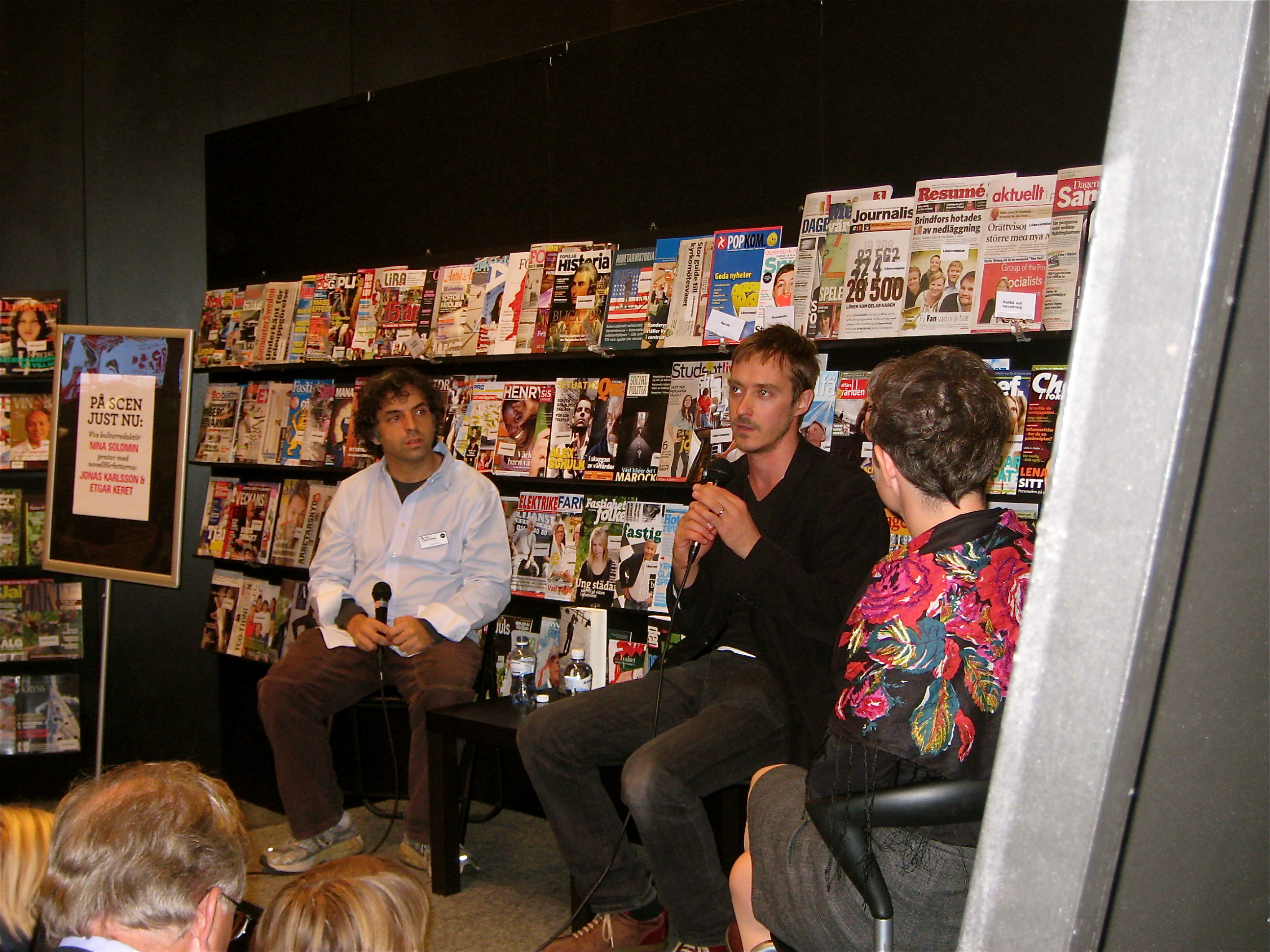 Israelian writer Etgar Keret (left) and Swedish writer and actor Jonas Karlsson at Gothenburg Book Fair 2009.